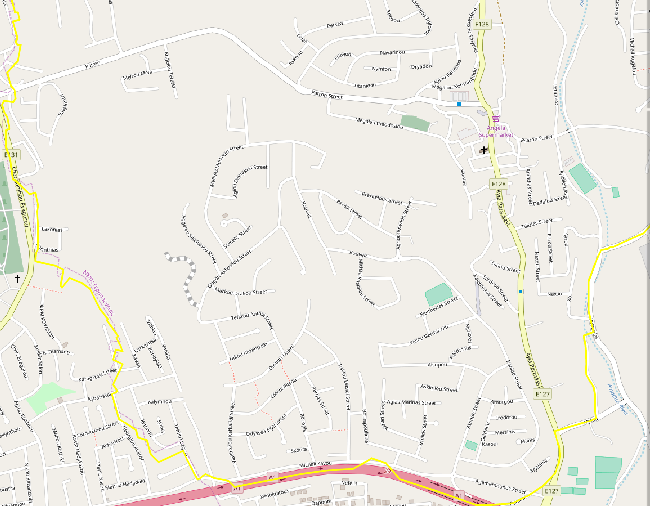 Map of built-up area of Saint Paraskevi (Germasogeia).